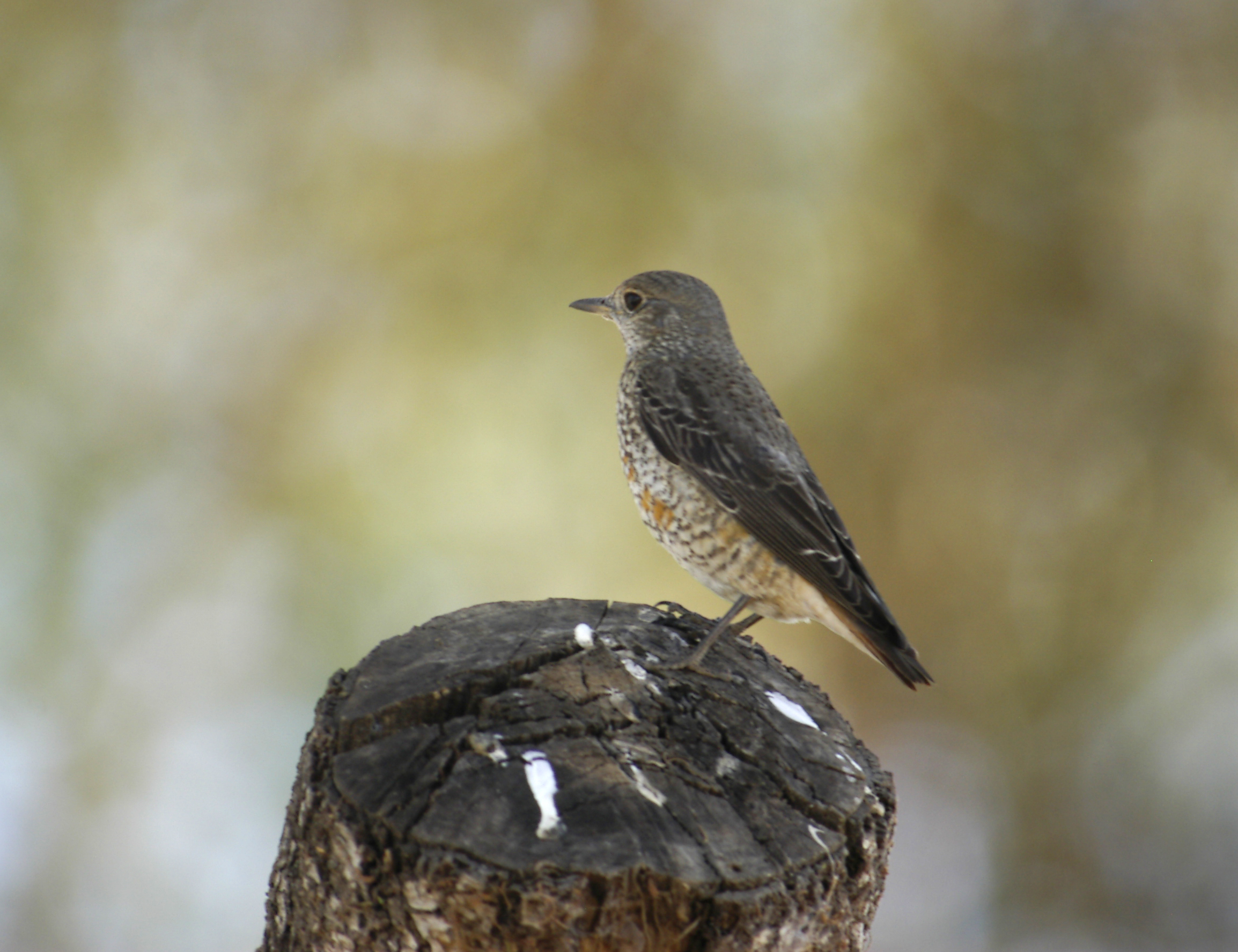 Rufous-tailed Rock Thrush Monticola saxatilis, on wintering grounds. Amboseli, Kenya.